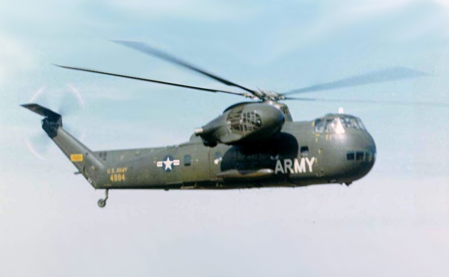 H-37B Mojave US Army in flight